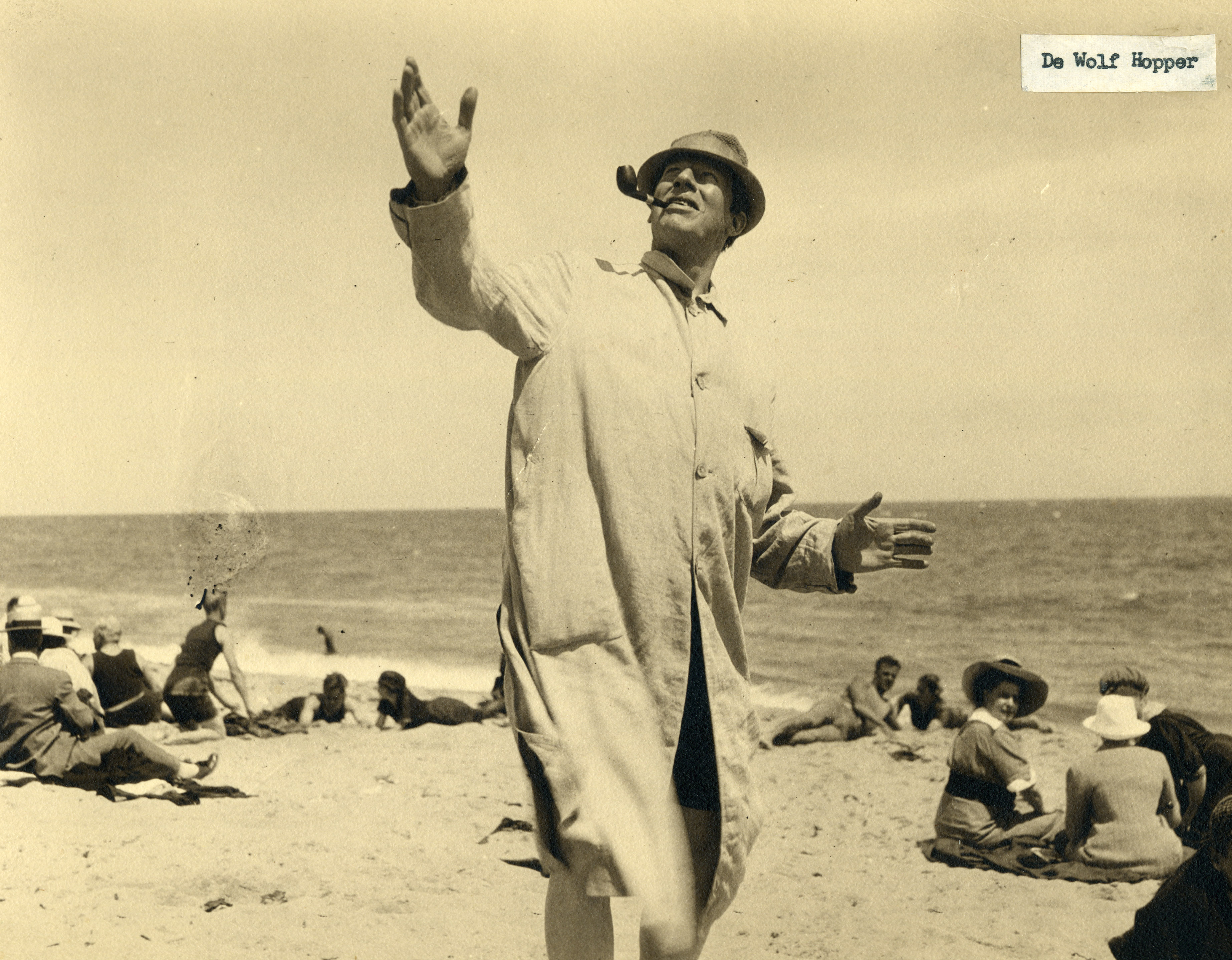 De Wolf Hopper (March 30, 1858 – September 23, 1935) was an American actor, singer, comedian, and theatrical producer. A star of the musical stage, he was best-known for performing the popular baseball poem Casey at the Bat.